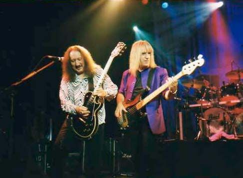 Mick Box & Trevor Bolder at the Magician's Birthday Party 2001